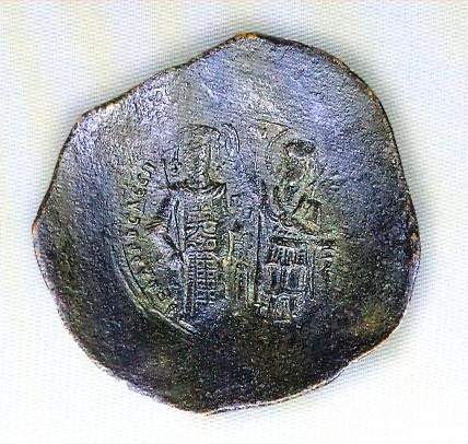 Coin depicting the Despot of Epirus (1215-1230): Theodore Komnenos Doukas (left)